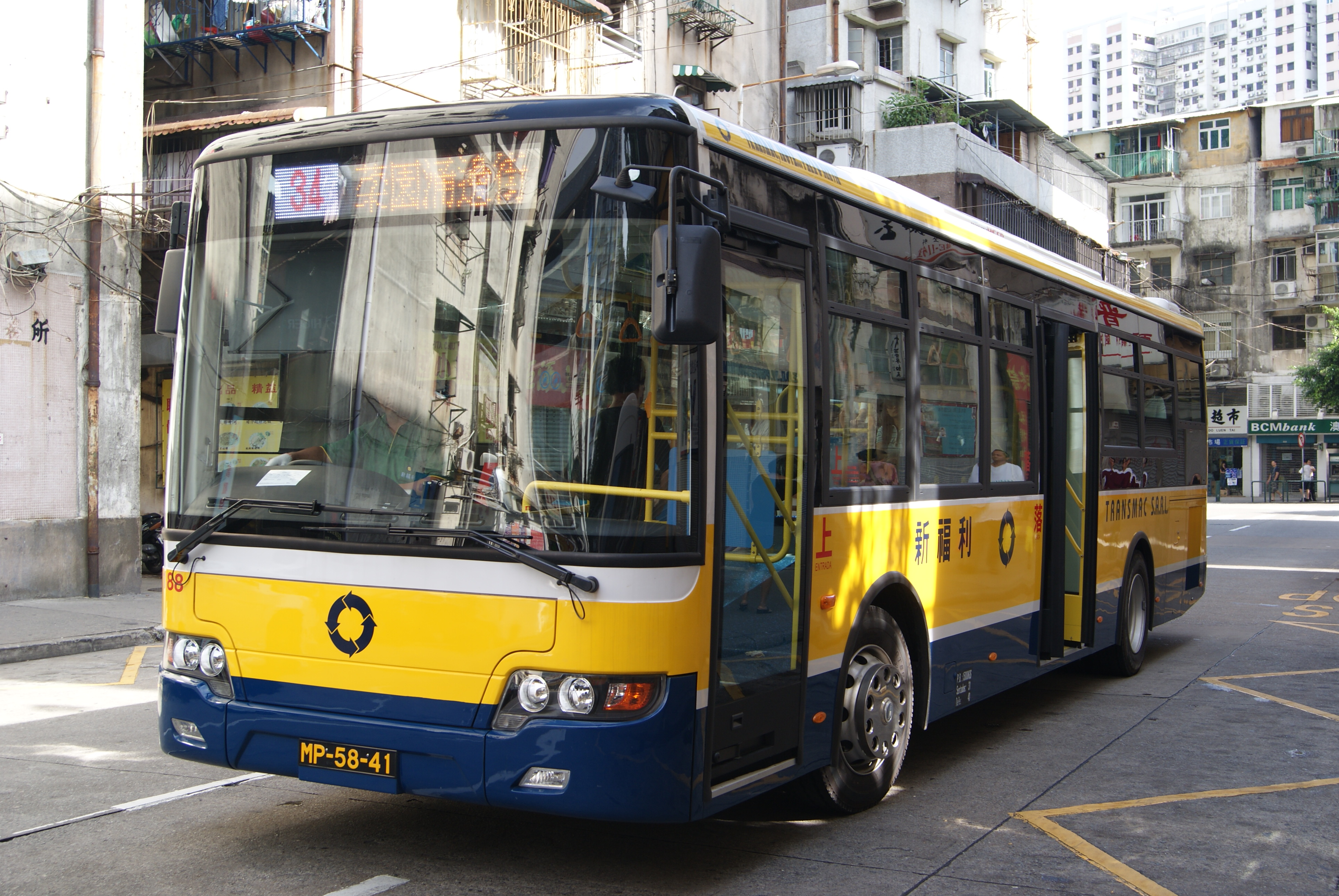 Transmac K188 in 34